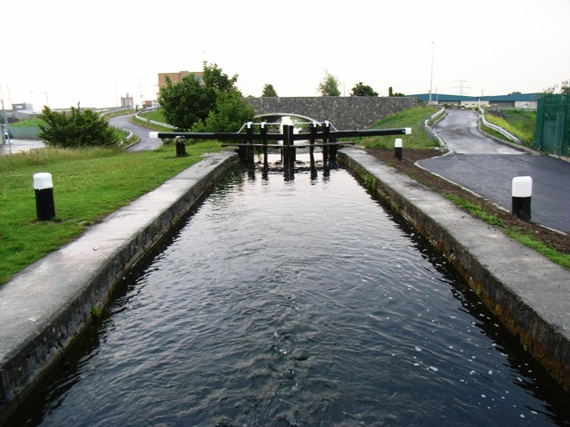 7th Lock on the Grand Canal in Bluebell, Dublin 12, near to Fox and Geese, Walkinstown, Inchicore, Ballyfermot and Ballymount, Dublin, Ireland.